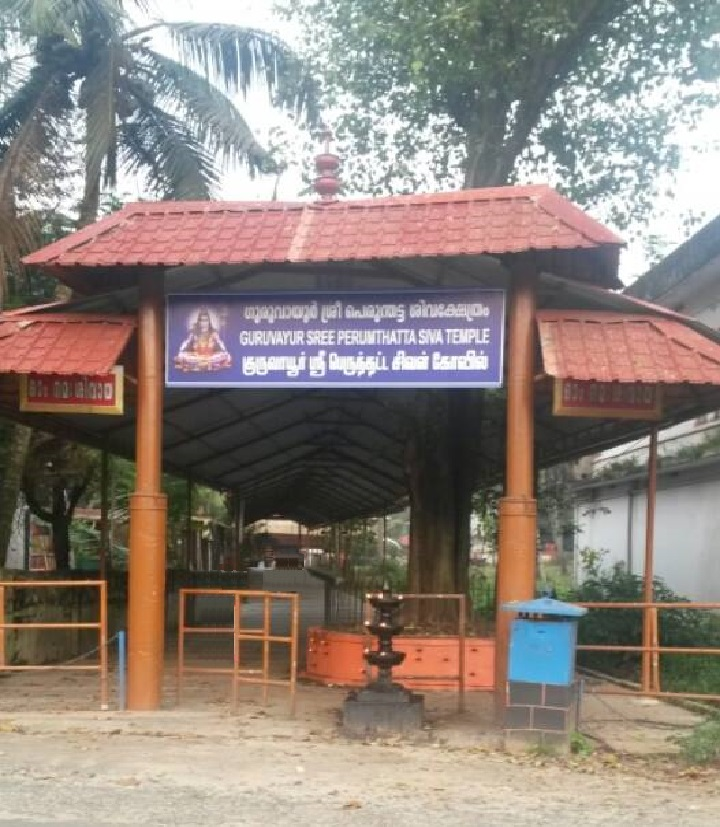 Guruvayur Sree Perumthatta Siva Template